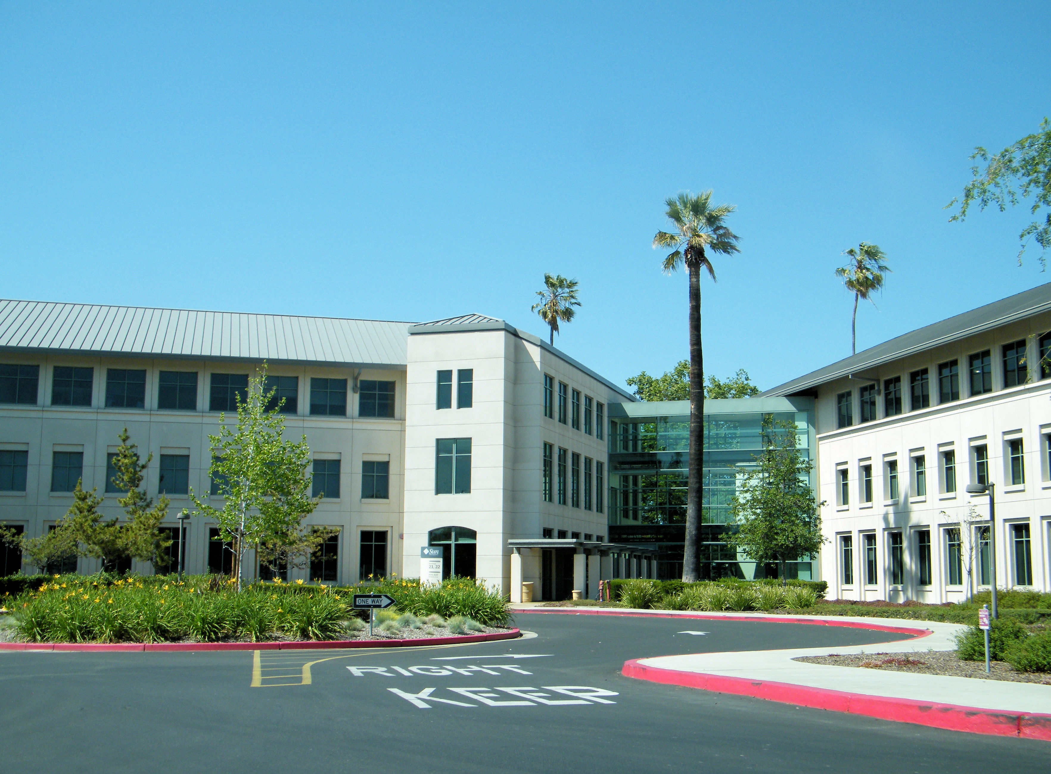 Buildings 21 and 22 at Sun Microsystems' headquarters campus on the former site of the Agnews Developmental Center.